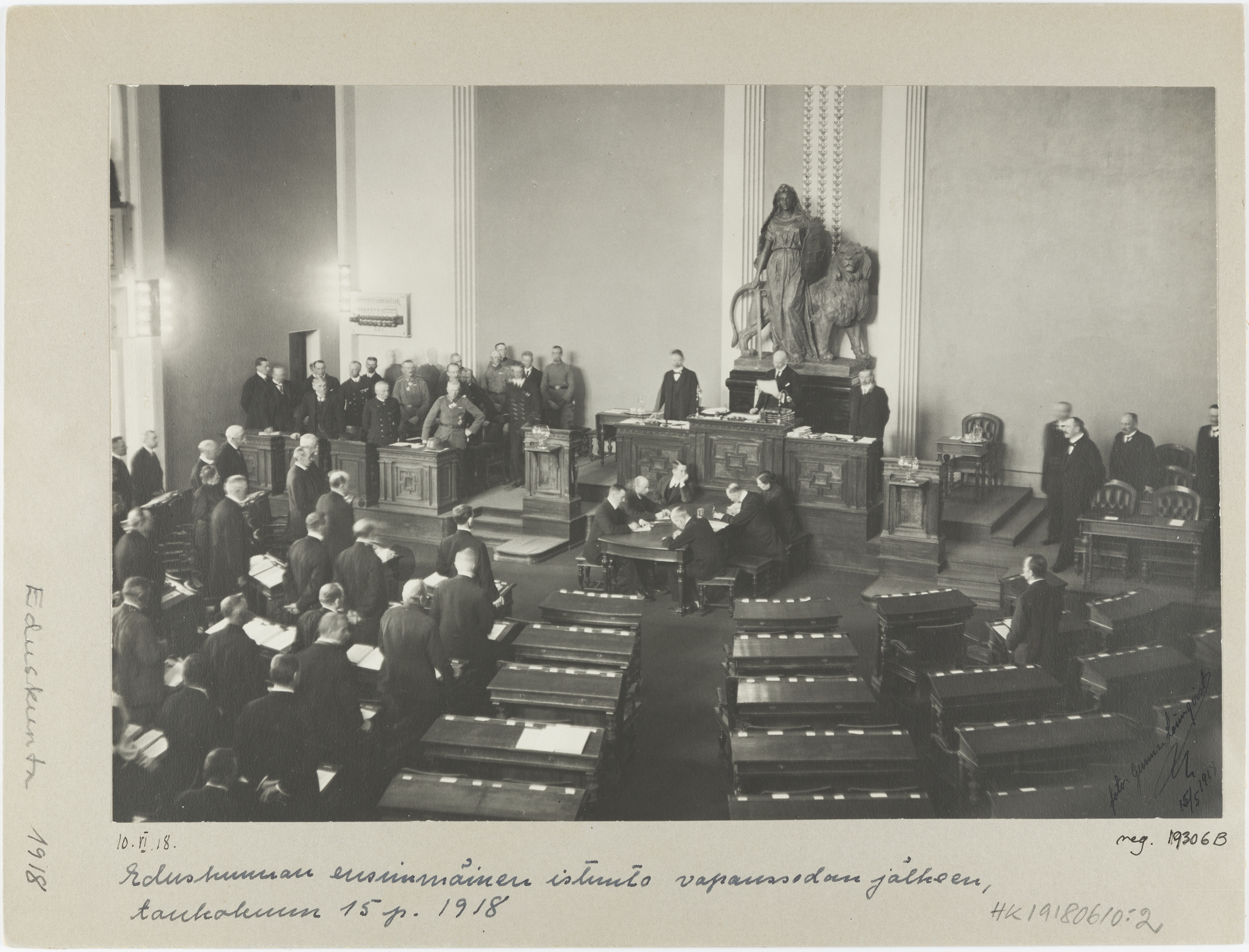 Rump Parliament of Finland in Helsinki during its first session since the Civil War. German army officers (incl. Rüdiger von der Goltz) standing in the left corner, P.E. Svinhufvud third from right and one social democrat (Matti Paasivuori) on the right representing the Finnish socialists alone. Some of the other 33 social democrats had fled to Russia, but some were not allowed entrance.